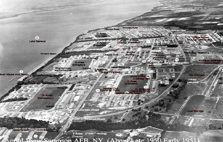 Sampson Air Force Base 1950 photo, source given as USAF photo